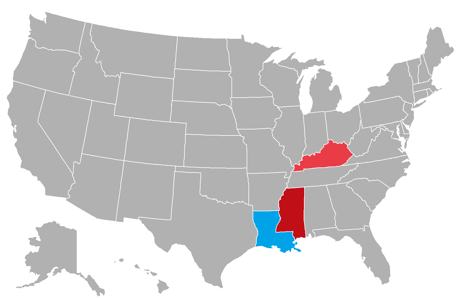 Map of the gubernatorial seats up for election in 2019.